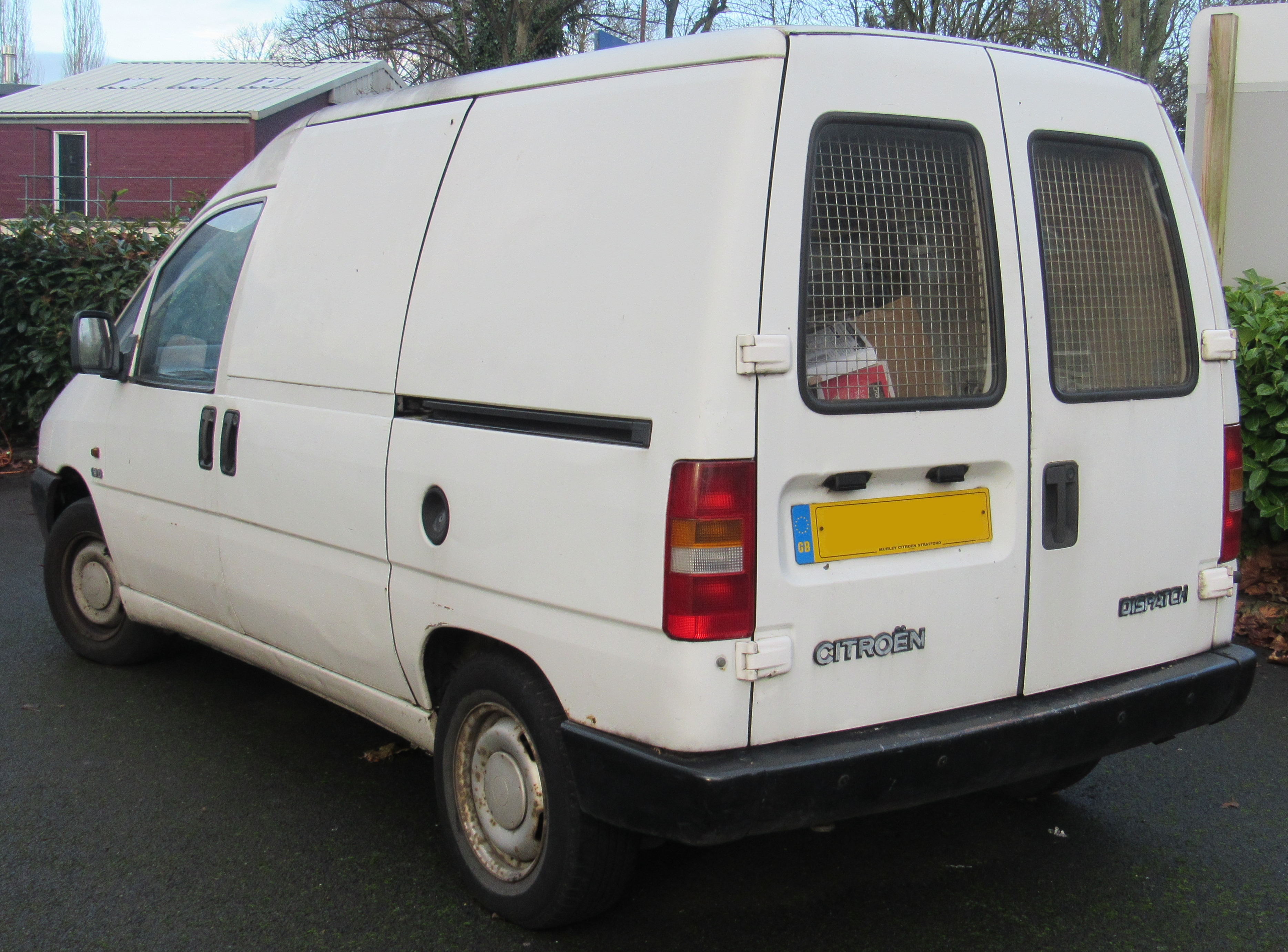 1998 Citroen Dispatch Diesel 1.9 Rear Taken in Warwick